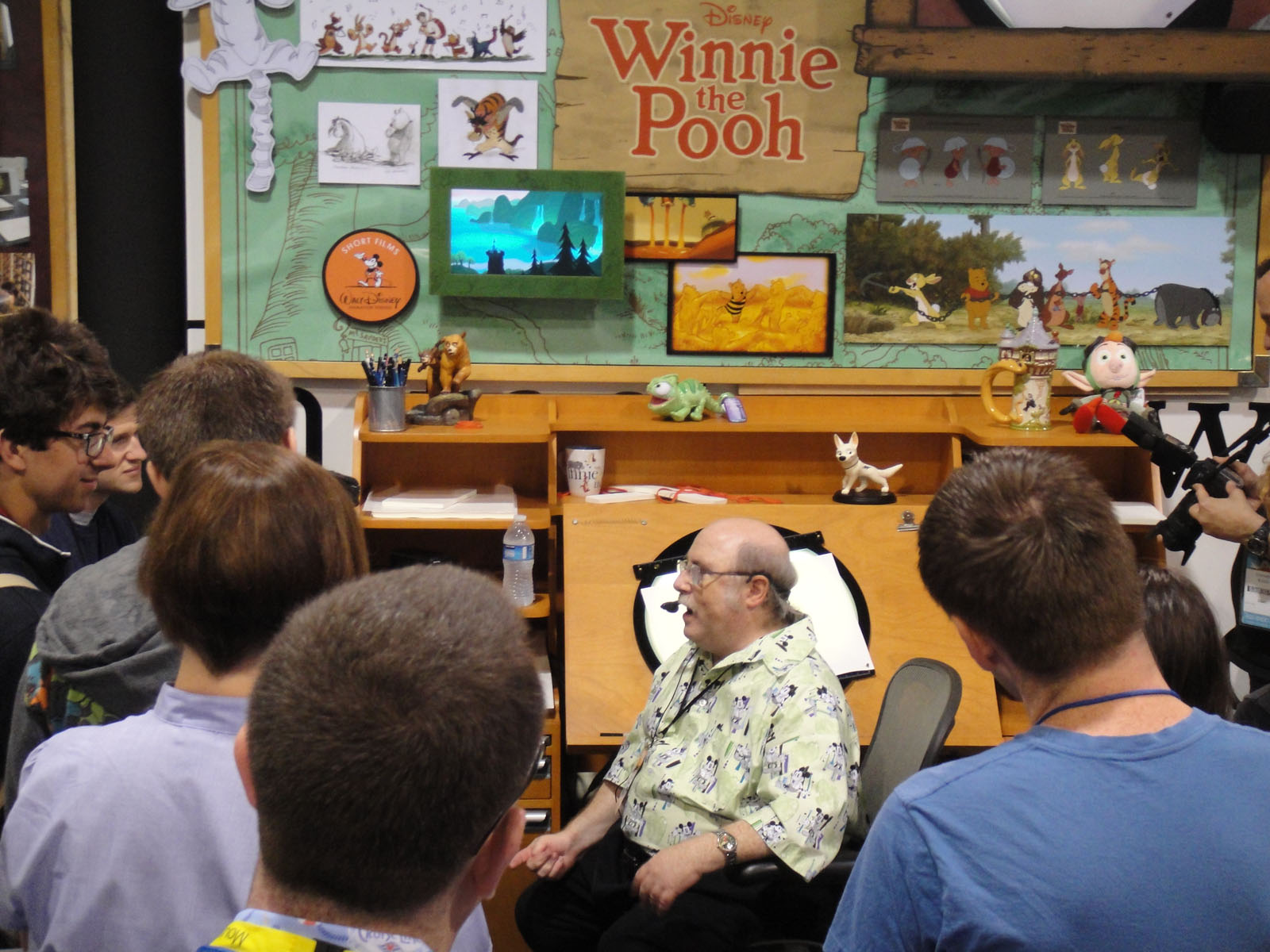 D23 Expo 2011 - chatting with the artist Eric Goldberg at the Disney Animation booth